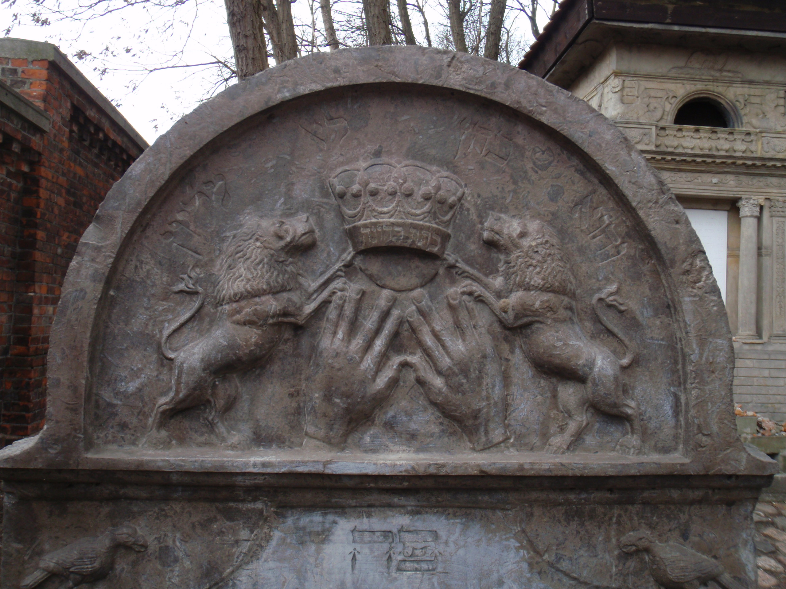 Powązki Jewish Cemetery - tombstone symbol